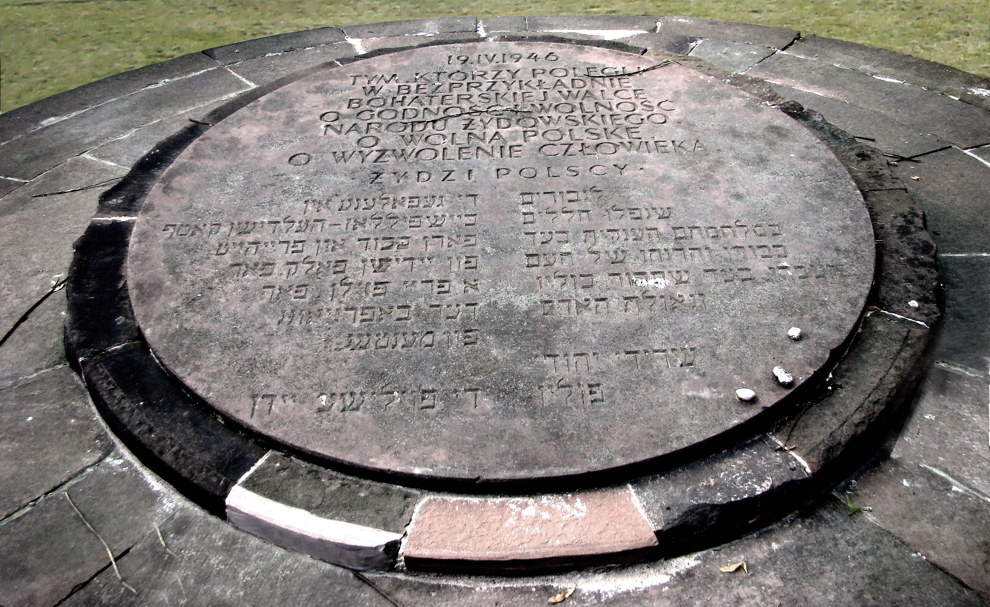 First commemorating plate, 1946. Inscription is in Polish, Yiddish, and Hebrew.